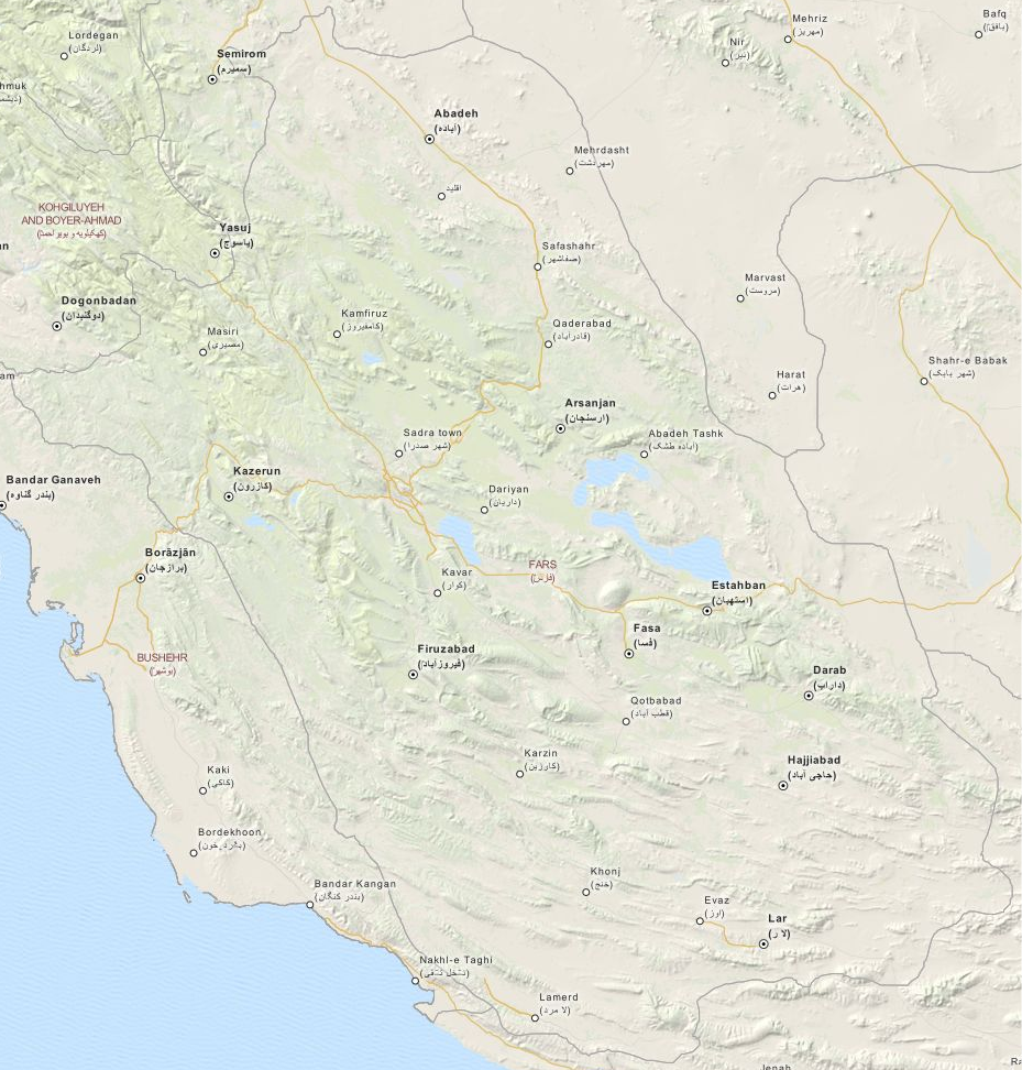 This map may be incomplete, and may contain errors. Don't rely solely on it for navigation.